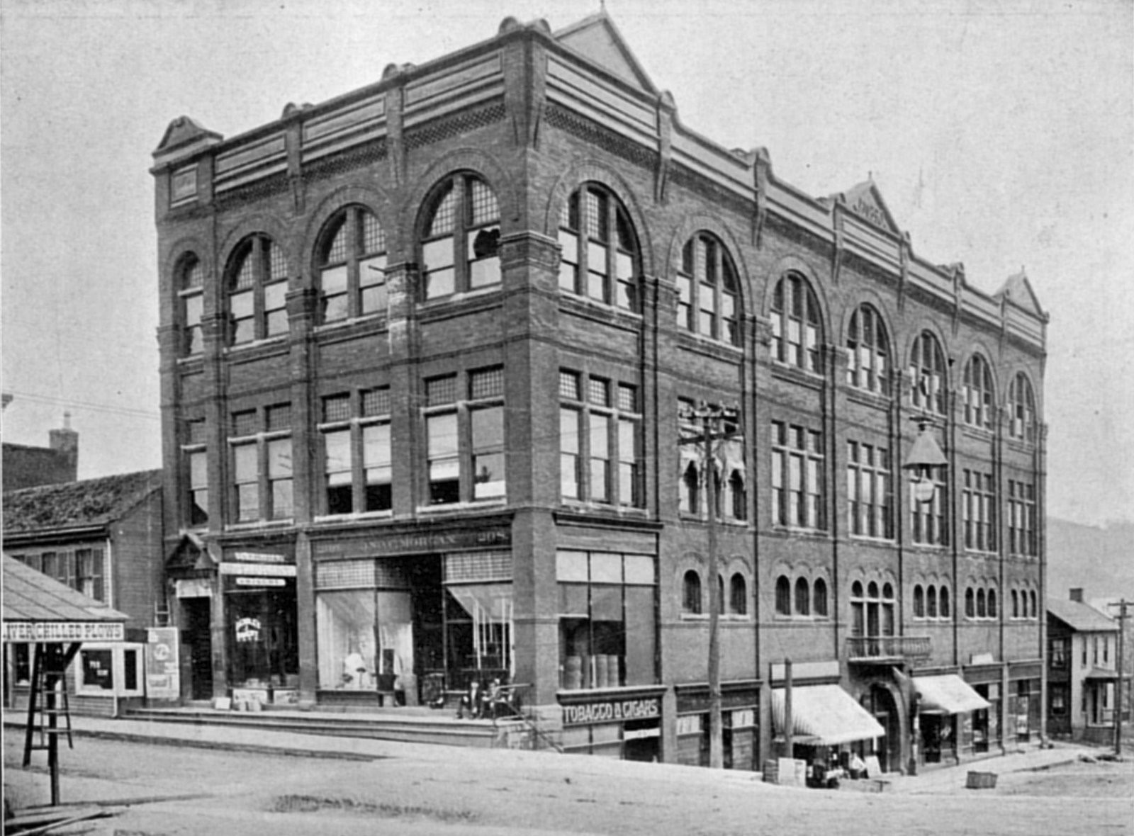 Photograph of the Morgan Building in Canonsburg, Pennsylvania taken in 1903.